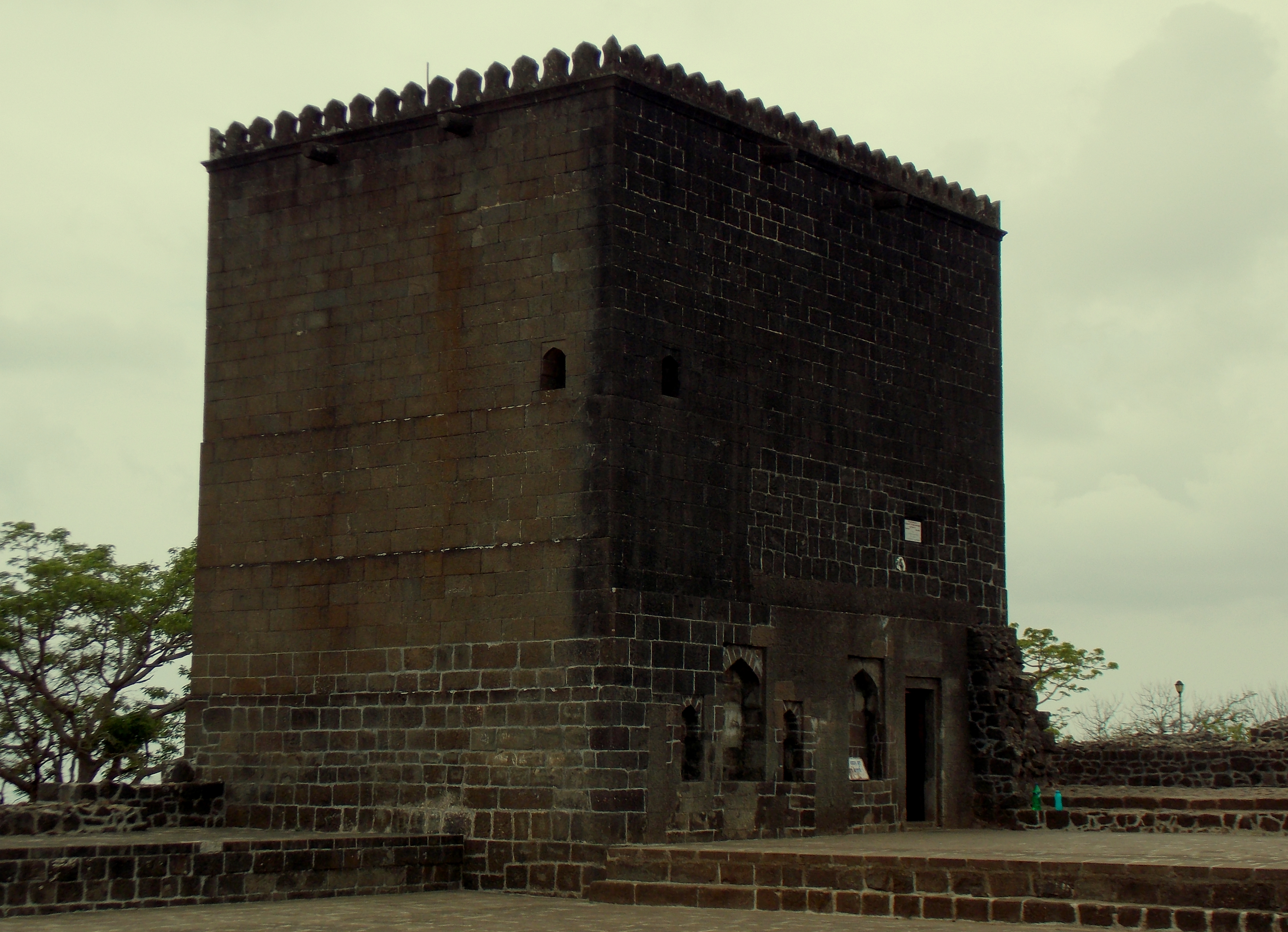 Shivneri Fort, Junnar, is birth place of Hindu Maratha King Shivaji Bhosale. It is almost 100 kms from Pune and one of the heritage and historical site in india because of its association with Chatrapati Shivaji.